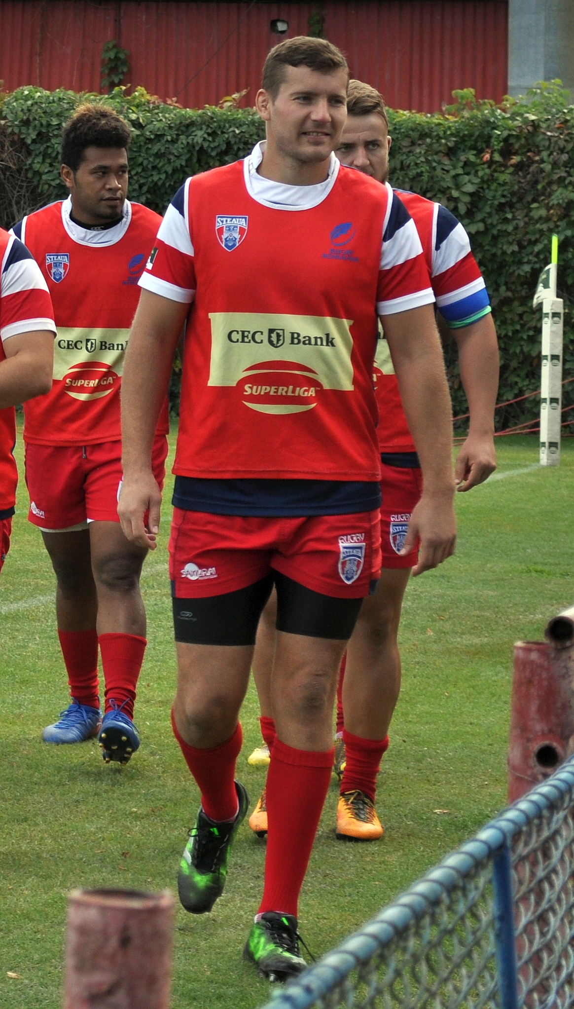 Romanian rugby union football player Alexandru Grigore, player of CSA Steaua București rugby club seen training before a match against CSM Baia Mare in Round 5 of Romanian Rugby SuperLiga in September 2017